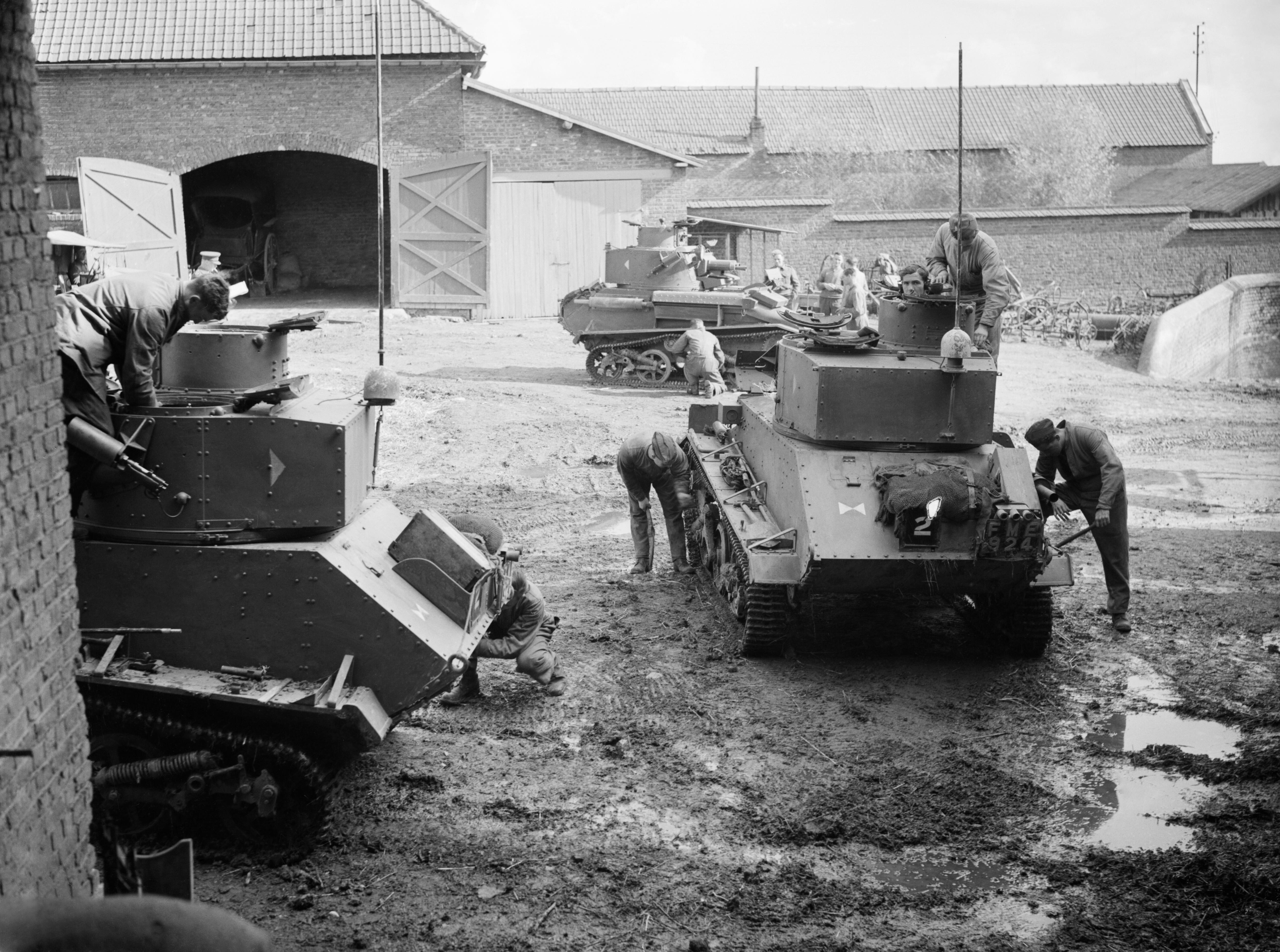 The British Army in France 1939 Crews of 13/18th Royal Hussars work on their Mk VI light tanks in a farmyard near Arras, October 1939.